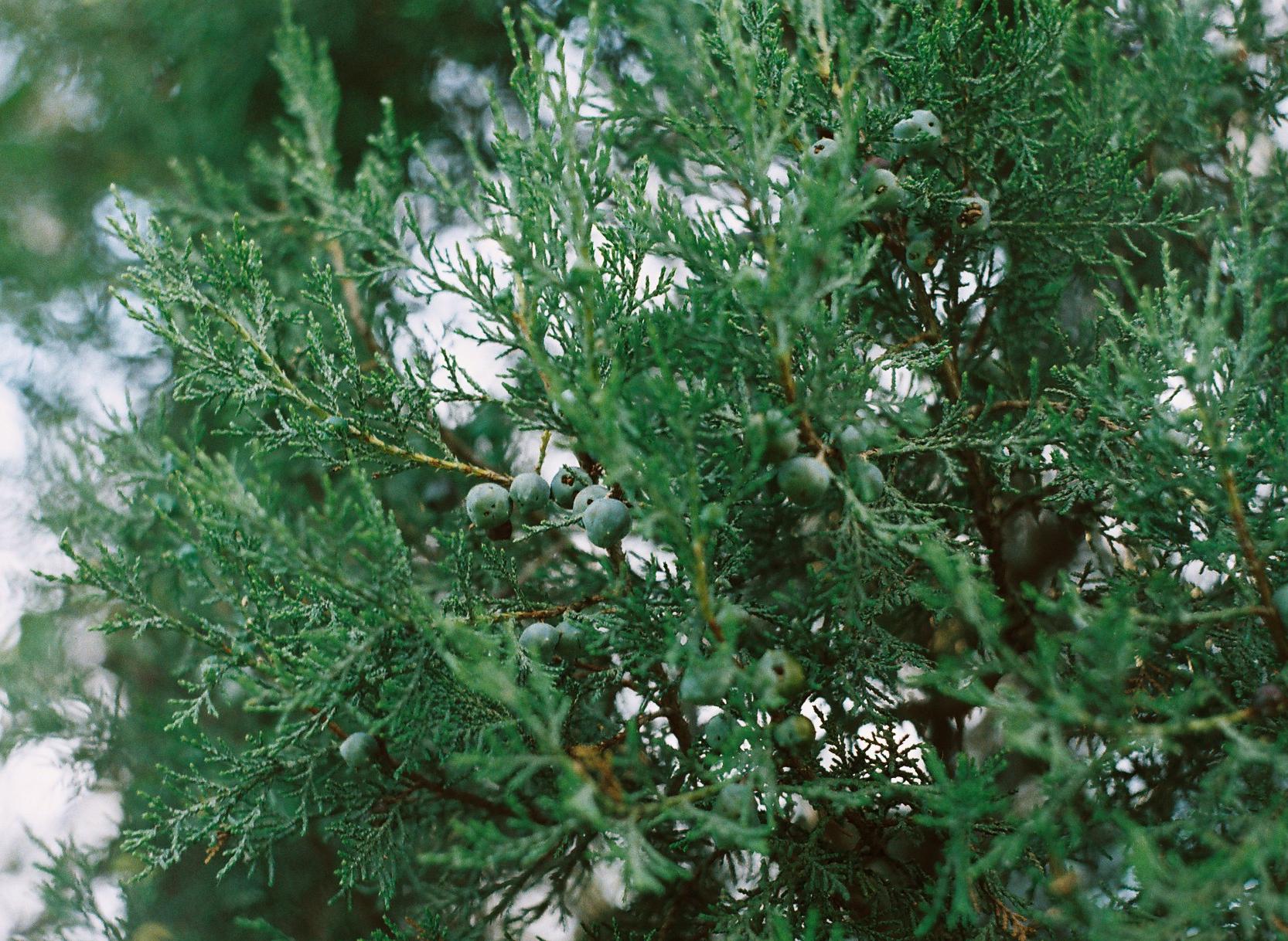 Juniperus excelsa foliage and immature cones, Bulgaria.